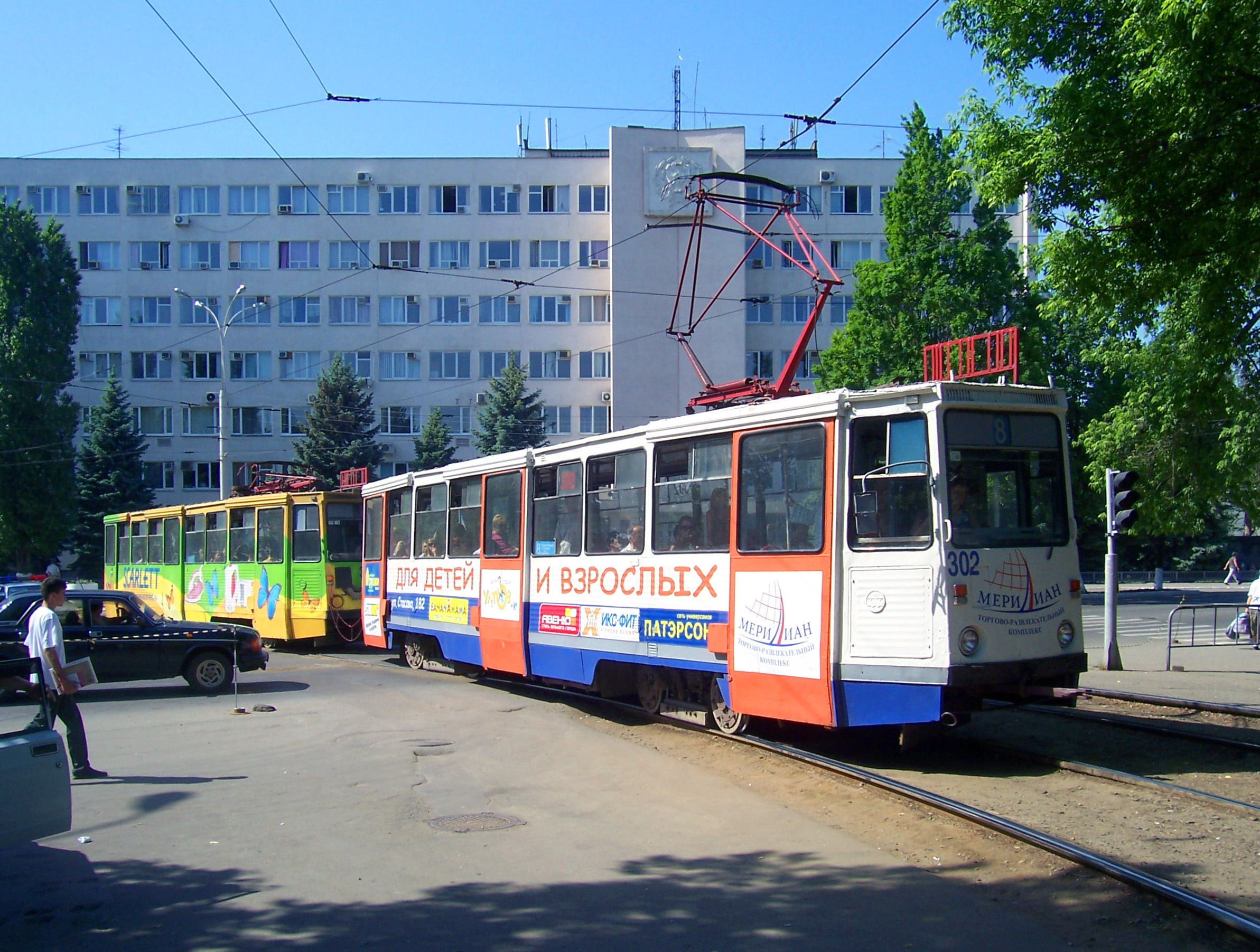 A tram in Krasnodar, Russia